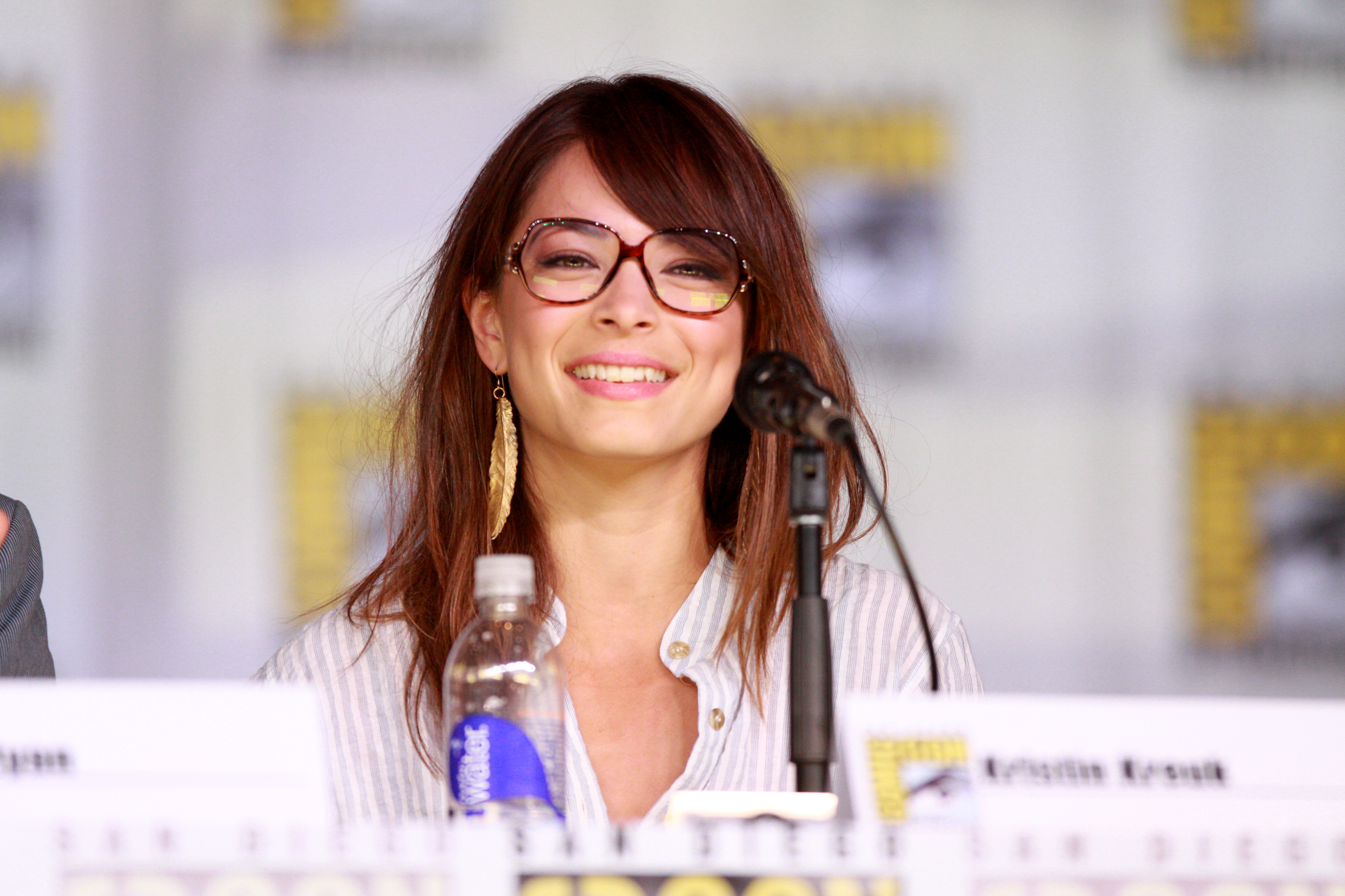 Kristin Kreuk speaking at the 2013 San Diego Comic Con International, for "Beauty and the Beast", at the San Diego Convention Center in San Diego, California.